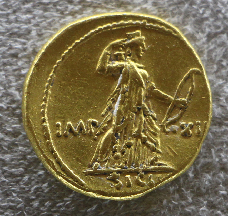 Ancient Roman coins in the Museo archeologico nazionale (Florence)